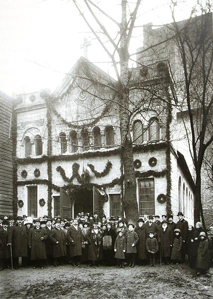 Saint Petersburg, Tserkovnaya str., Saint Boniface church opening